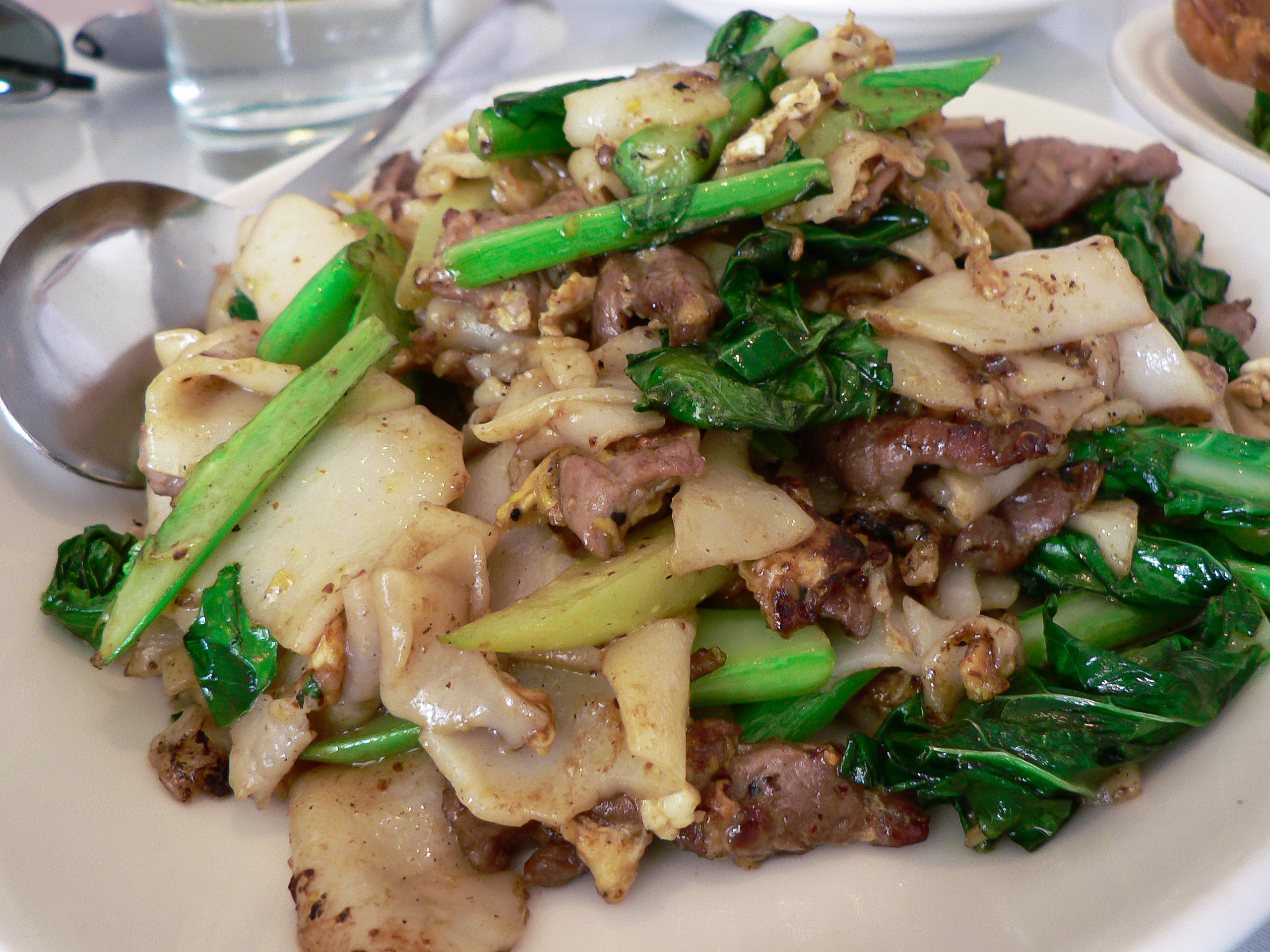 Phat Si-io - Wide rice noodles fried with soy sauce